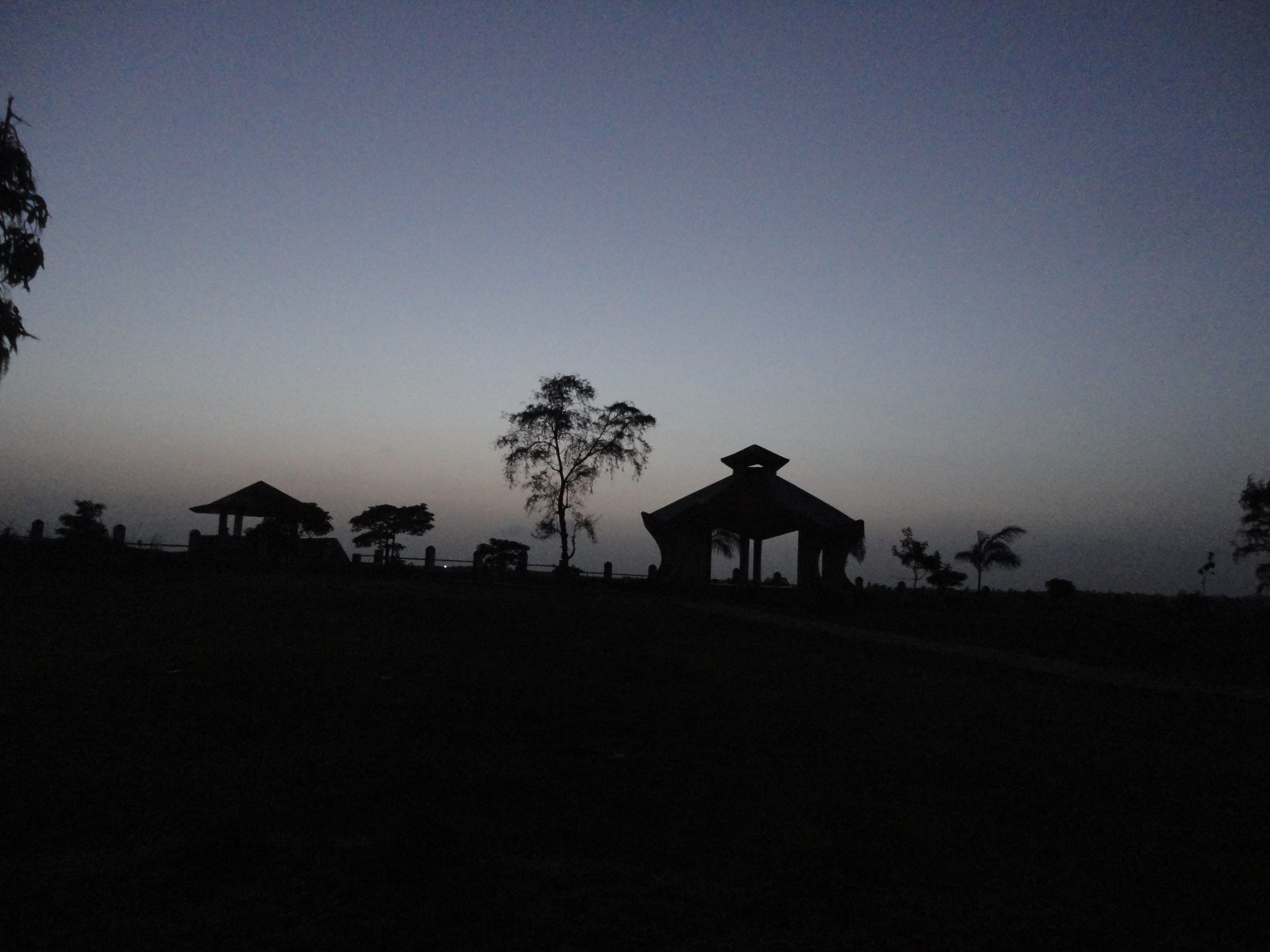 A twilight view of the Sunset point, Jawhar at the dusk